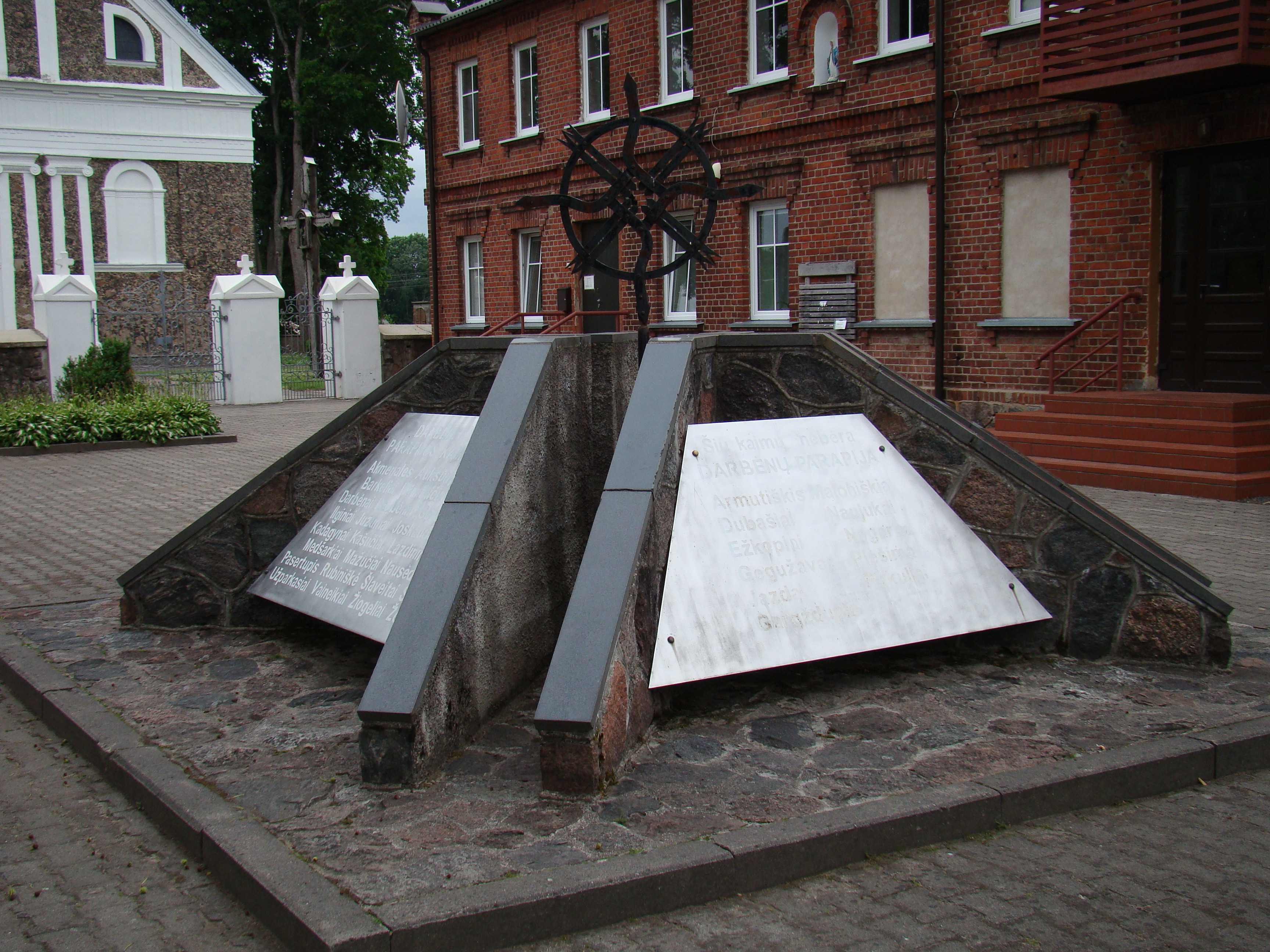 Darbenai, Kretinga district, Lithuania